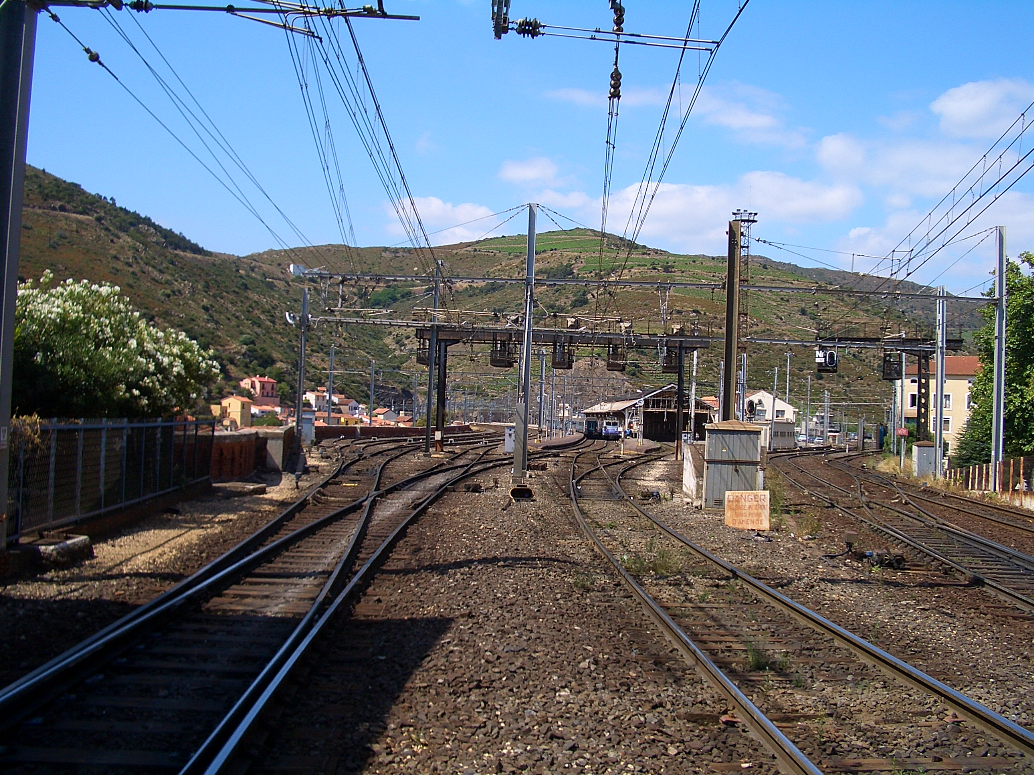 Branching rail tracks in Cerbère - the last French station before the break-of-gage with Spain